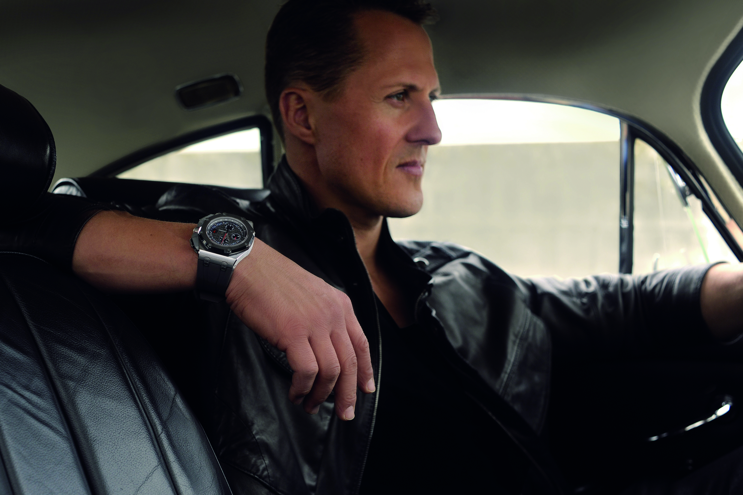 Michael Schumacher in an ad photo for Audemars Piguet watches.